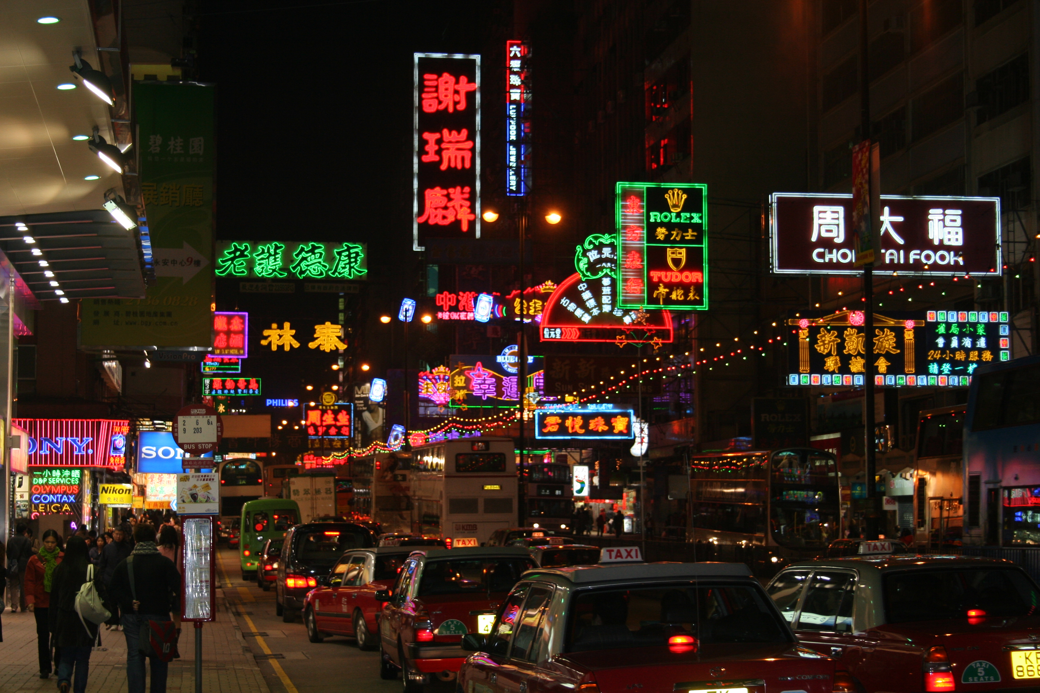 City lights of Hong Kong - Nathan Road, Kowloon